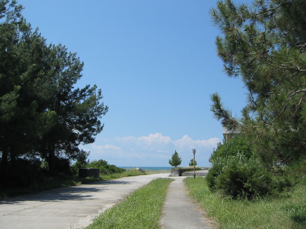 Pathway in Pitsunda